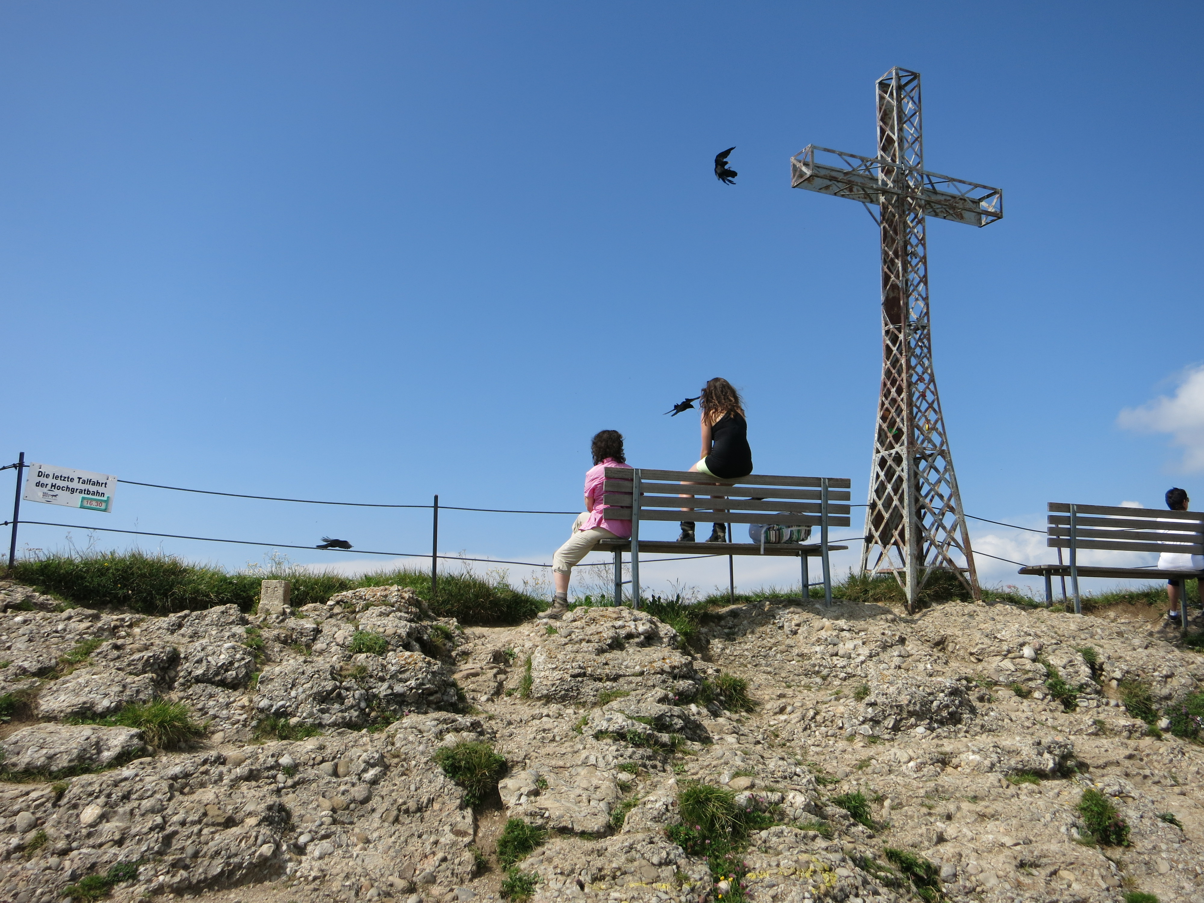 On top of mountain Hochgrat, Allgaeu